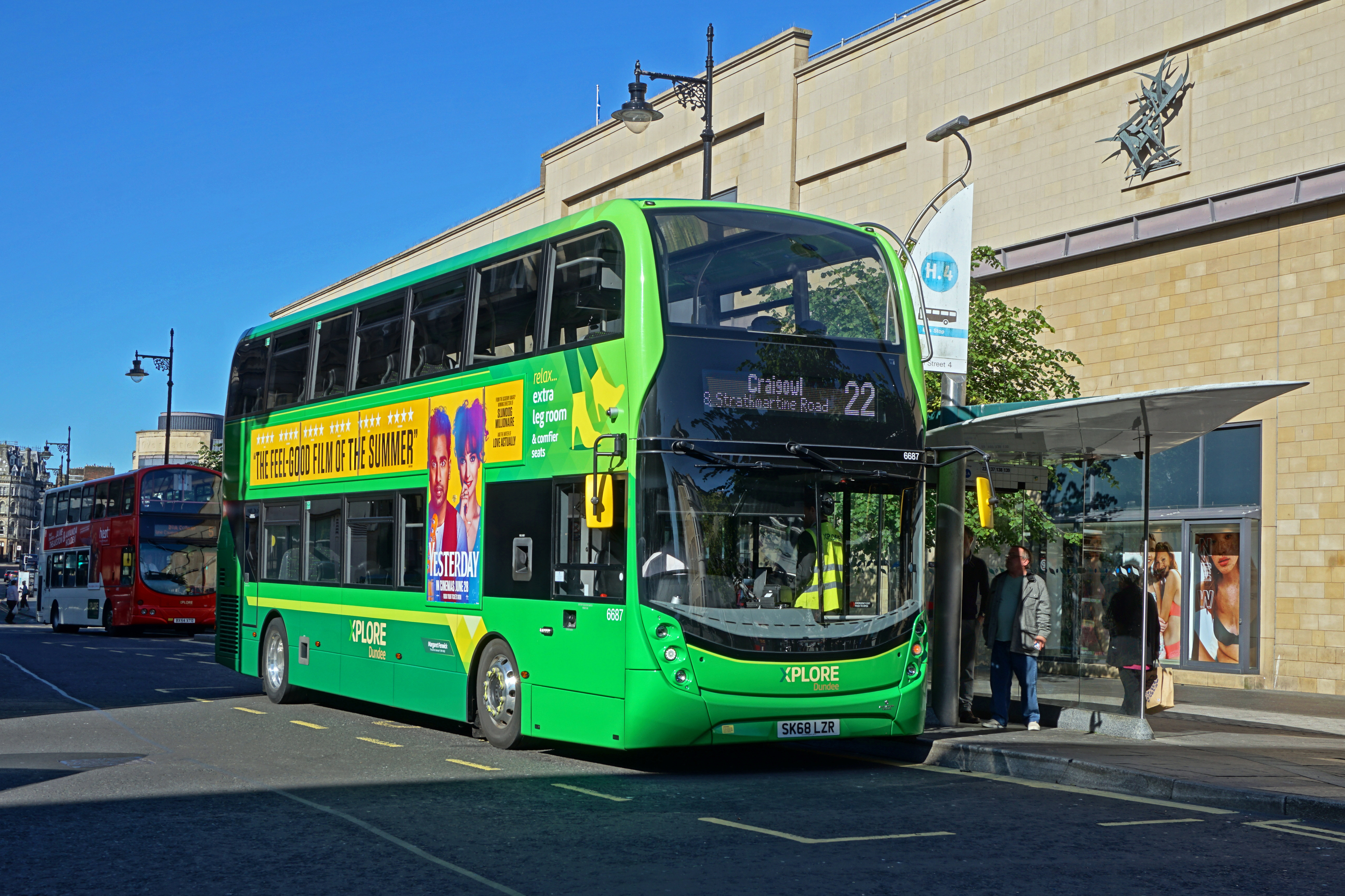 Xplore Dundee bus (Alexander Dennis Enviro400) in the current green livery.